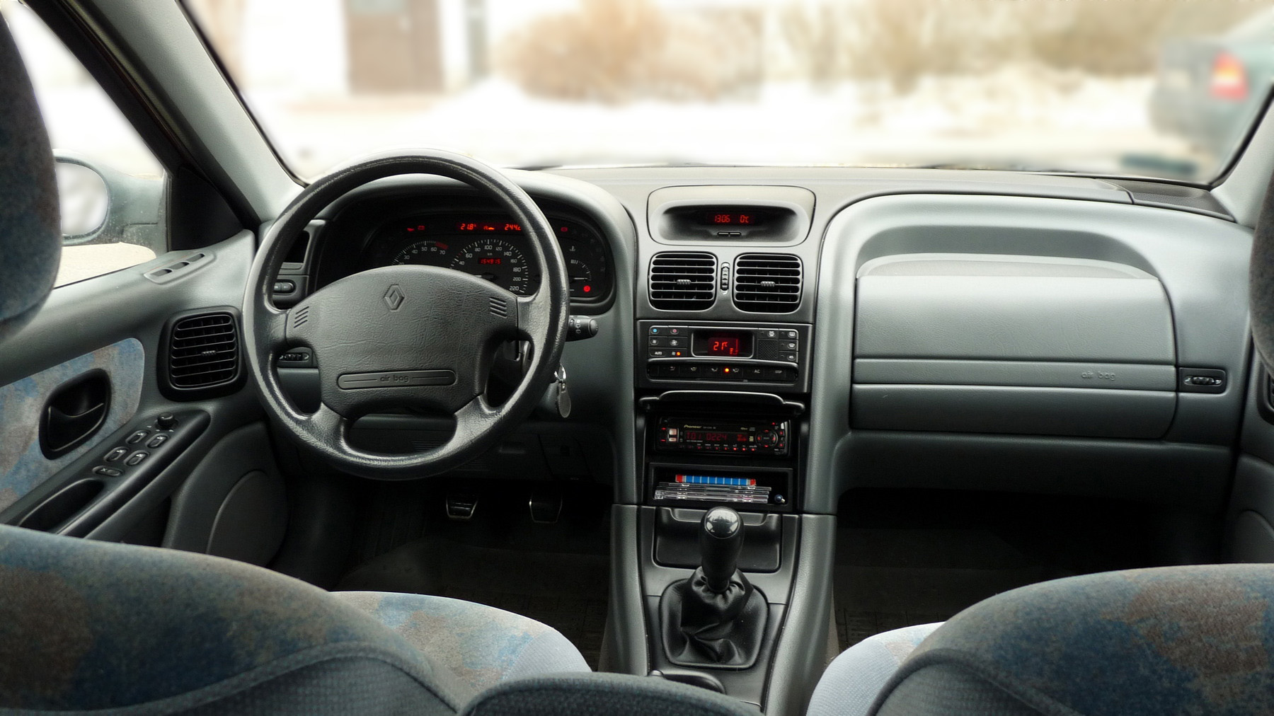 Renault Laguna I Phase I - inside, RXE version